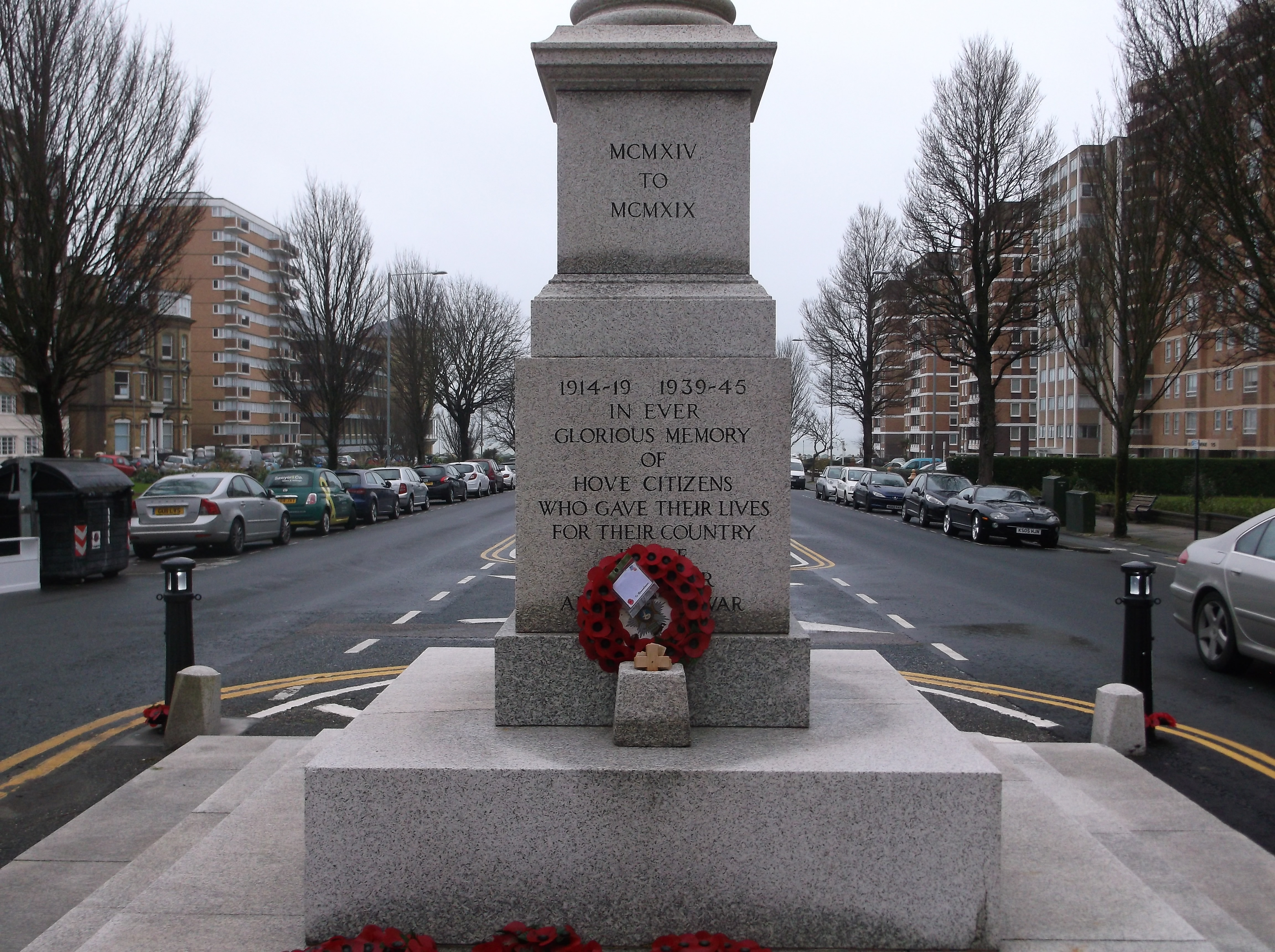 War memorial, Grand Avenue, Hove, East Sussex; statue of St George on a stone plinth, designed by Sir Edwin Lutyens